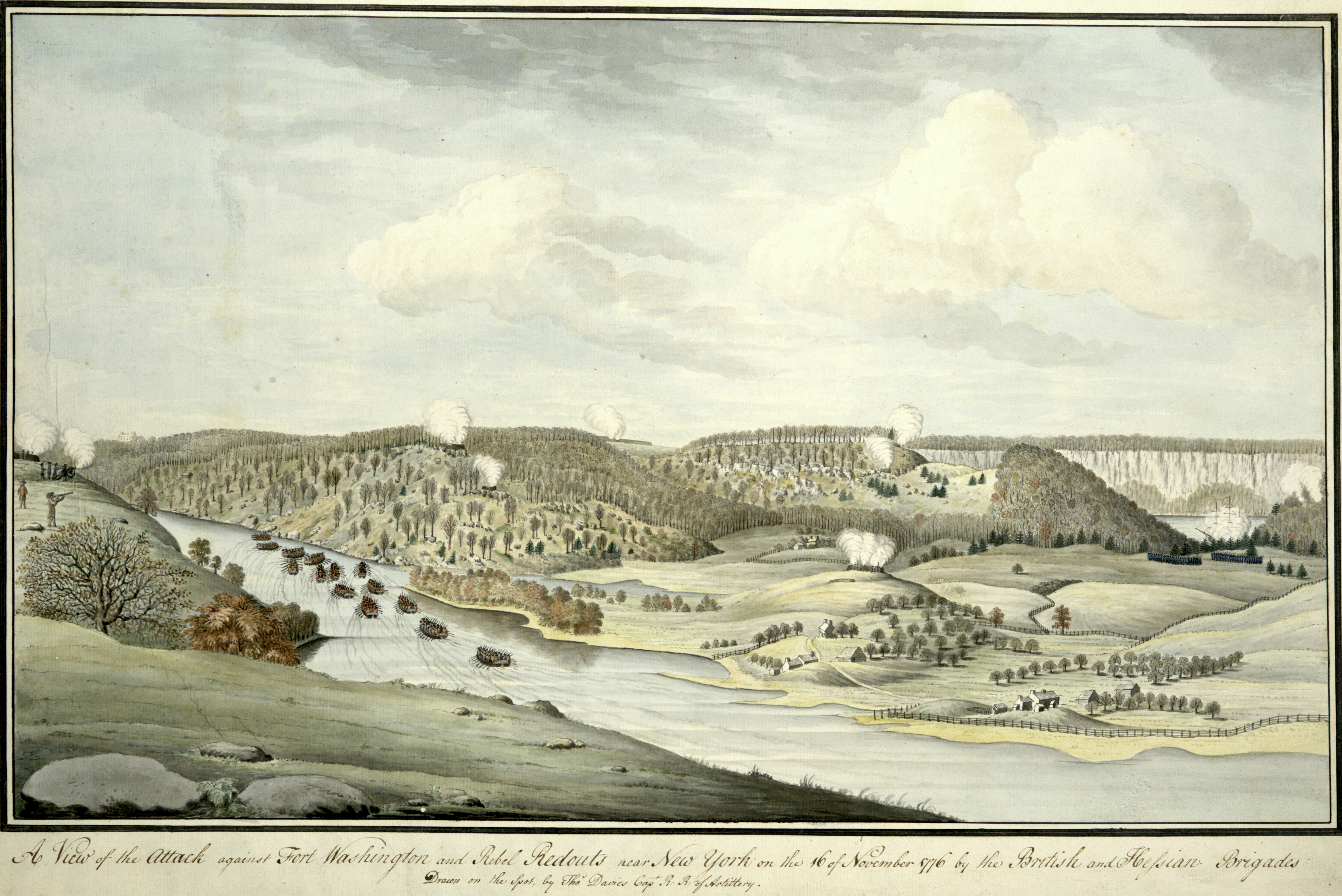 Contemporaneous view drawn by British officer Thomas Davies of the attack against Fort Washington on November 16, 1776. Shows artillery fire on the fort and redoubts as well as several boats of soldiers in the river. The New Jersey Palisades and the Hudson River are also shown in the background.